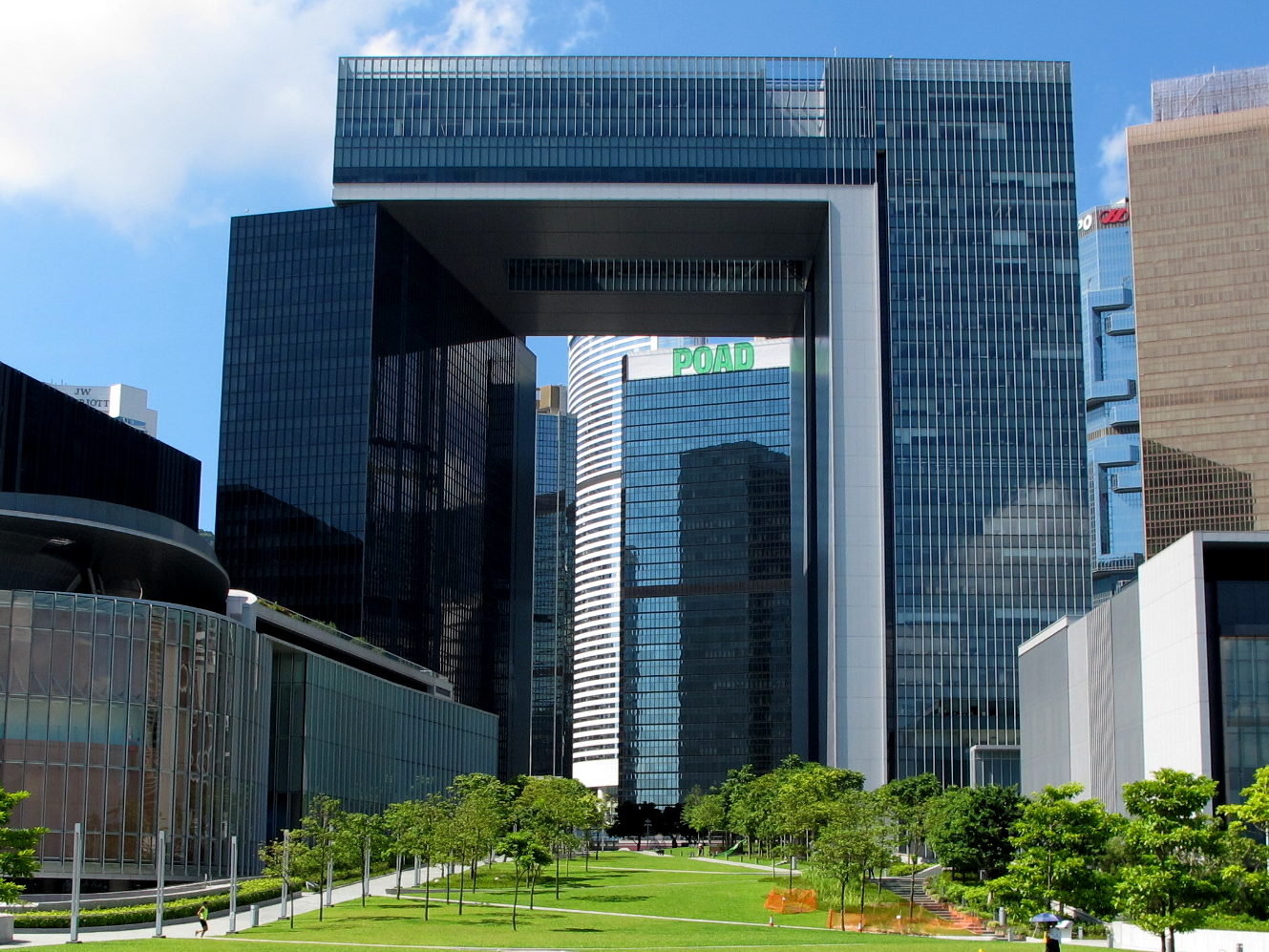 Central Government Offices